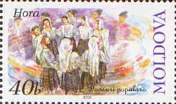 Stamp of Moldova